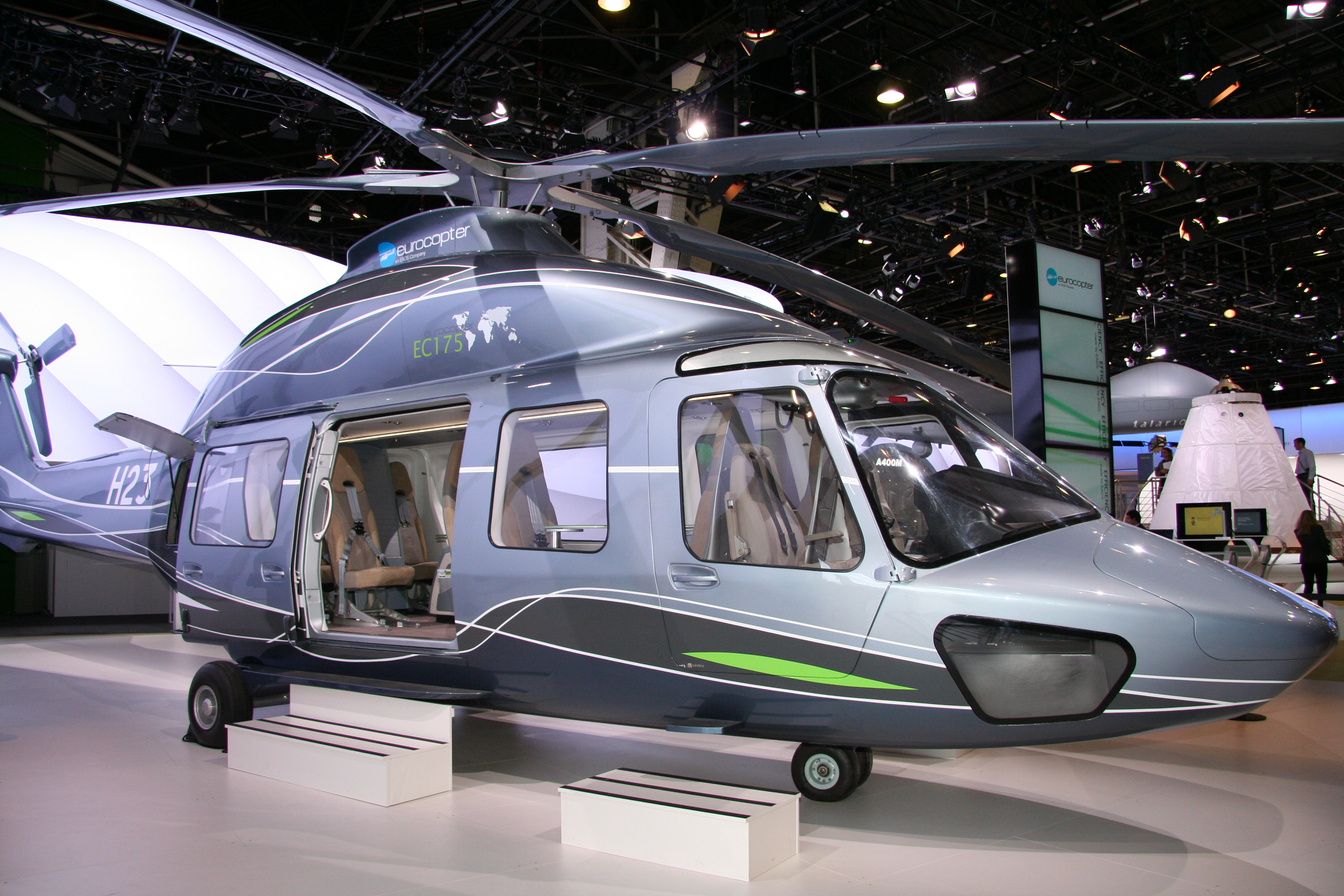 Eurocopter EC175 - Paris Air Show 2009